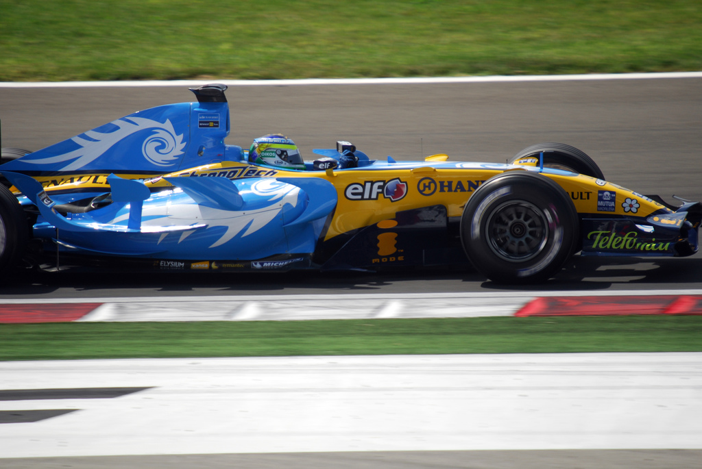 Giancarlo Fisichella driving for Renault F1 at the 2006 Turkish Grand Prix.